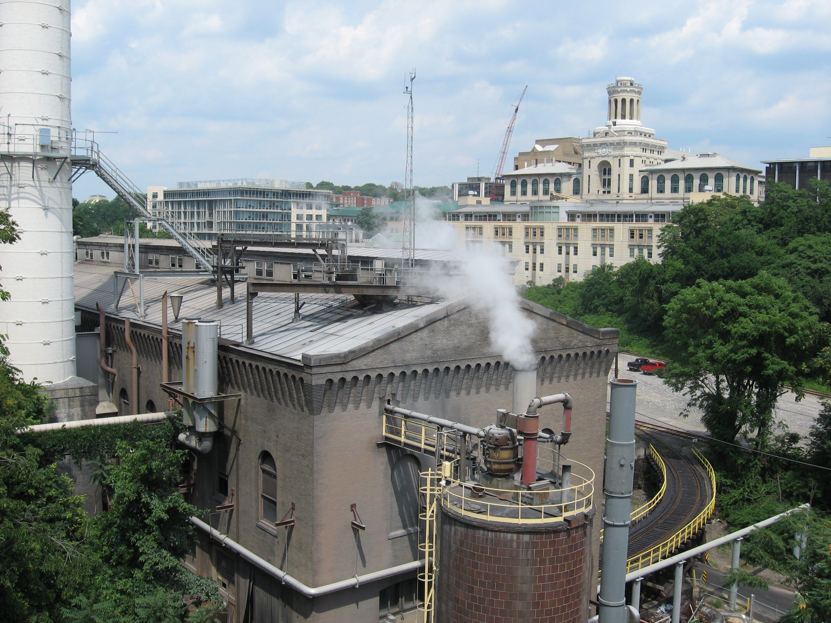 The Bellefield Boiler Plant (aka the Cloud Factory) in the Junction Hollow of Schenley Park. Photo taken from the Schenley Bridge. Carnegie Mellon University's Hamerschlag Hall is visible in the background.40°26′31.3″N 79°56′56.8″W / 40.442028°N 79.949111°W